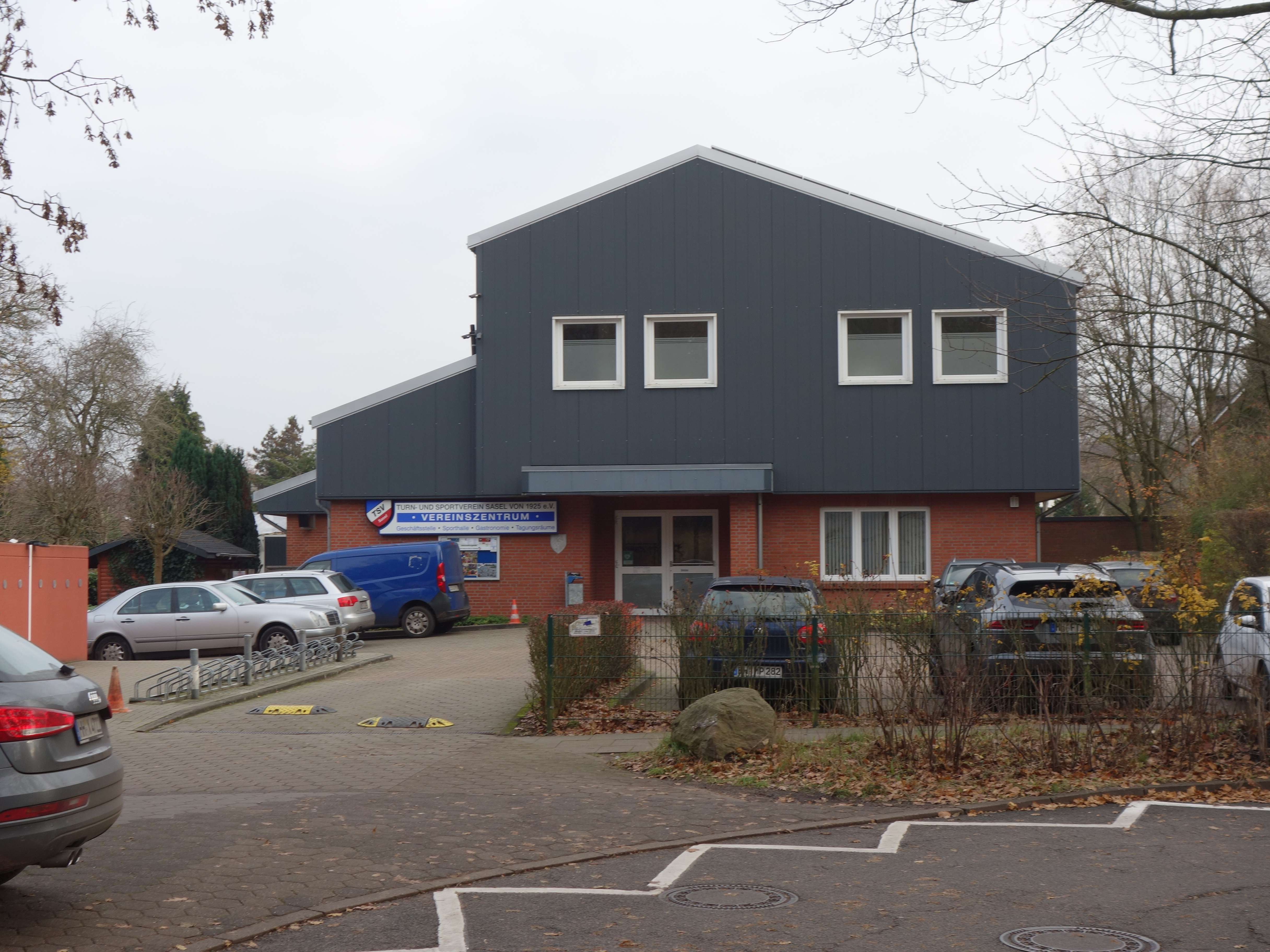 Western view of the building of the sportsclub TSV Sasel in Sasel, Hamburg municipality, Hamburg state, Germany.